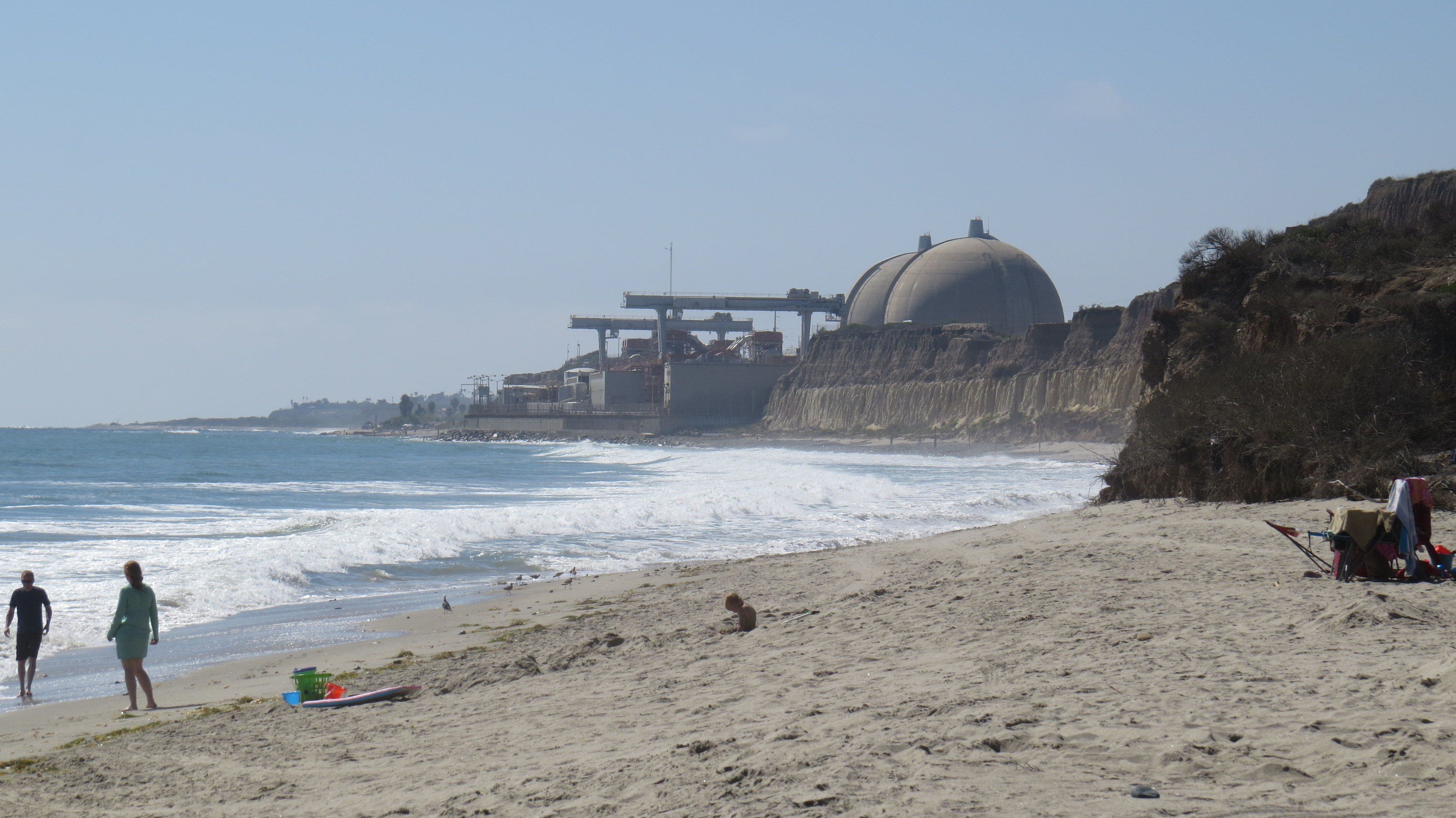 San Onofre Nuclear Generating Station (SONGS) in San Diego County, California, as seen from San Onofre Bluffs to the south. SONGS divides San Onofre State Beach, with San Onofre Bluffs to the south and San Onofre Surf Beach to the north.